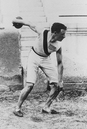 Olympic Games 1896, Athens. The Olympic champion in the discus, Robert Garrett (USA)